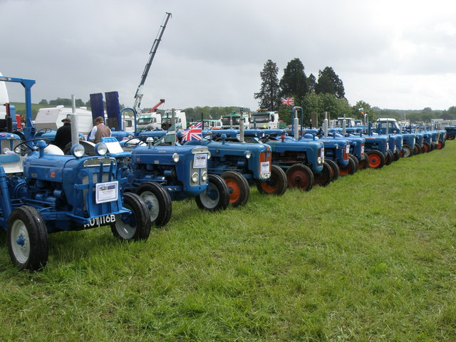 At least 15 Dexta's on Parade. A line up of Fordson Dextas as part of the Ford and Fordson gathering at the Belvoir Steam and Country Fair. The Dexta was produced as a small tractor to compete with the Massey Ferguson 35 in the late 50's and early 60's It was eventually replaced by models in the Ford force range.